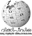 Logo of the Malayalam Wikipedia